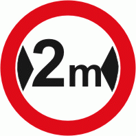 Diagram of road signs of Luxembourg